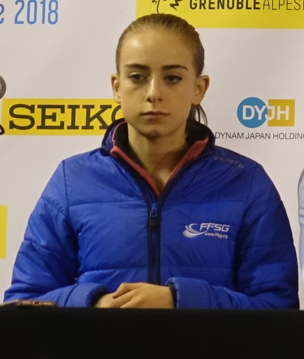 2018 Internationaux de France - French team press conference